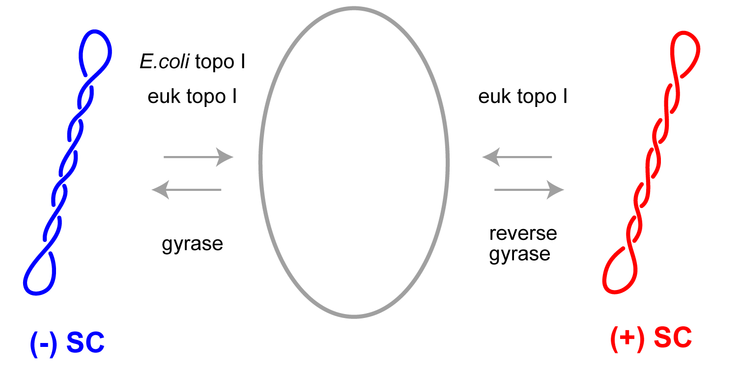 Diagram showing an example of the operation of topoisomerases, regulating the overwinding or underwinding (supercoiling) of DNA.